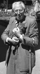 Cropped version of File:KurtReidemeister MFO19544.jpg, showing Kurt Reidemeister, 1956 or 1958, in some Swiss mountain spa